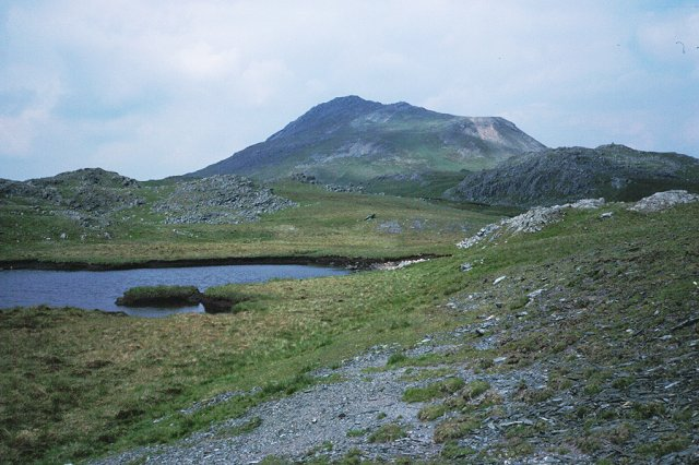 Southern ridge, Arenig Fawr. Arenig Fawr from its southern ridge, a broad affair of knolls and pools.